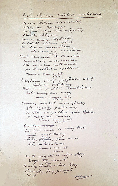 Facsimile of Józef Wybicki's manuscript of Mazurek Dąbrowskiego